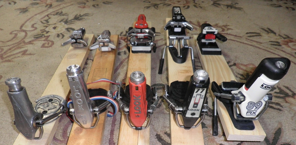 A number of Look bindings from William Talbot's extensive historical collection. From left to right are the original Nevada II toe and Grand Prix heel, the Nevada T (for Teflon) and N17 heel, a N57 pair in orange with the optional ski brake under the toe (they dropped separate naming for heel and toe at this point), the similar N77 with integrated brake, and finally the 89RX, typical of the late-model "99 series". The red button in the toe piece of the 89RX releases tension and allows the binding to release more easily in the event of a forward fall. Since the release of the 89/99 series, the toe piece of the Look bindings has changed. The two-finger design evident in all of these examples has been replaced by a single cup-like device able to slide to the sides.